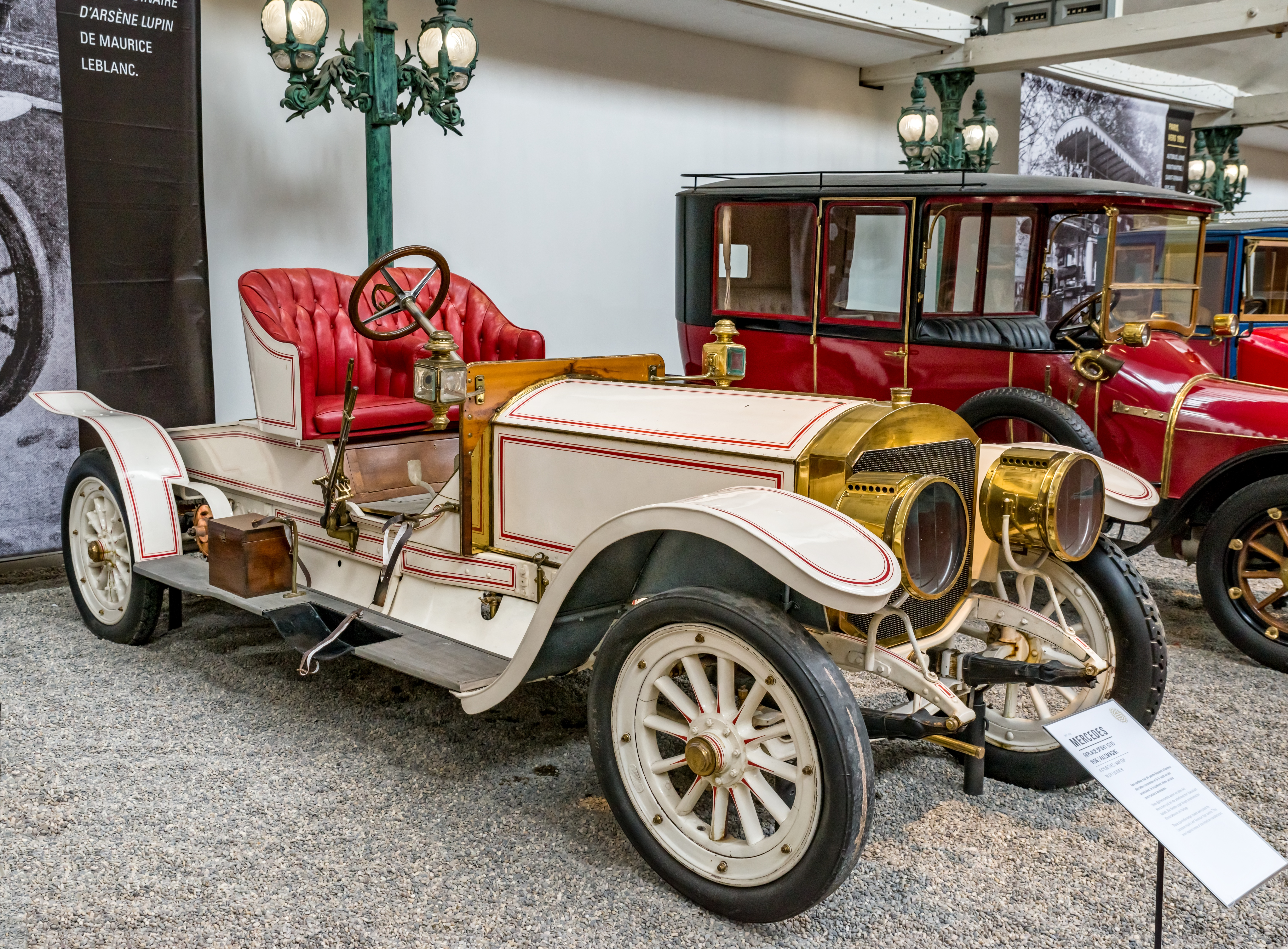 pictures from the Cité de l’Automobile – Musée National – Collection Schlump in Mulhouse, France ptictures from the 10. may 2018